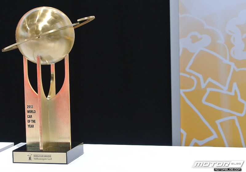 NYIAS 2013 | World Car Awards @ New York Autoshow _____________ Please feel free to use this image for FREE under the Creative Commons (CC) licence. However, if you use the image, pls set a backlink to and give credit to . For highres images or any other inquiries pls .